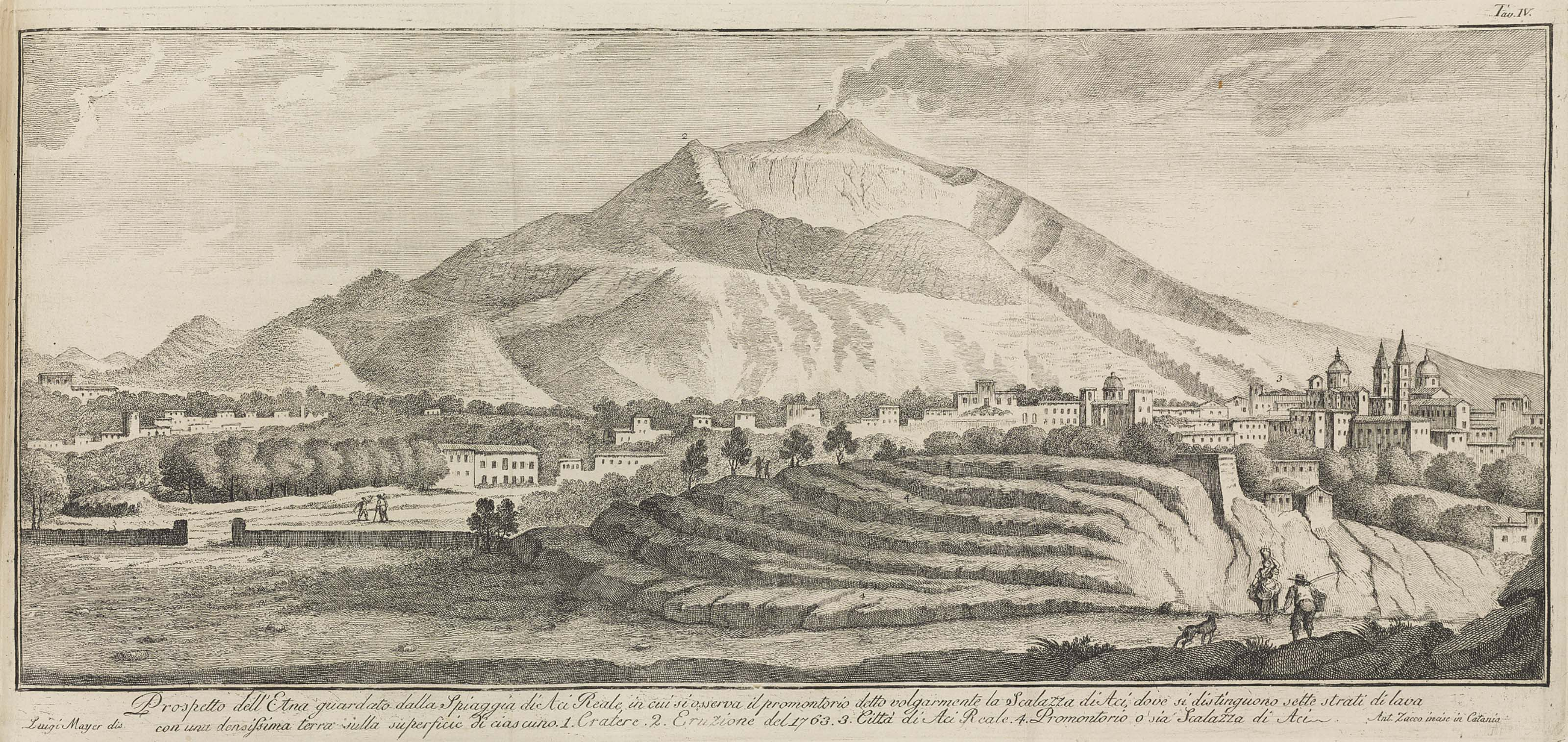 Book illustrated from "Storia naturale e generale dell’Etna. Catania: Stamperia della Regia Universita' degli Studj. 267 x 182 mm.